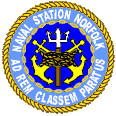 Insignia of the U.S. Naval Station Norfolk, Virginia (U.S.).